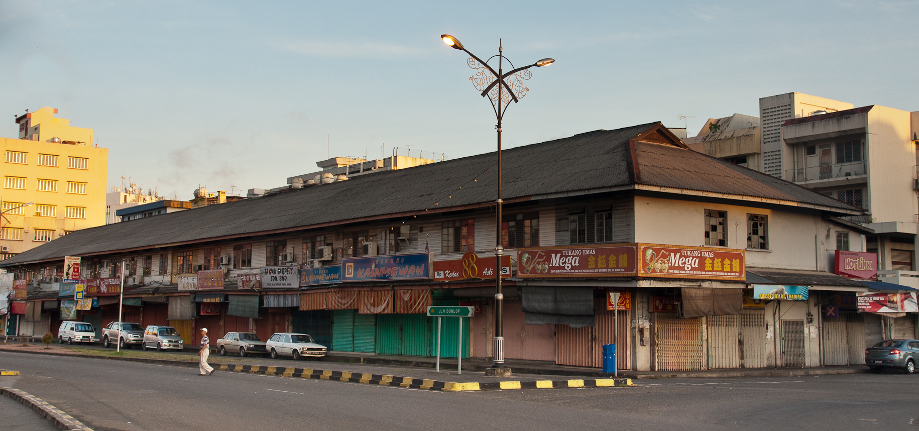 Tawau, Sabah: Some old storehouses along the Dunlop Street of Tawau, Sabah, Malaysia. Once situated vis-a-vis Pasar Raya. Demolished in 2015.